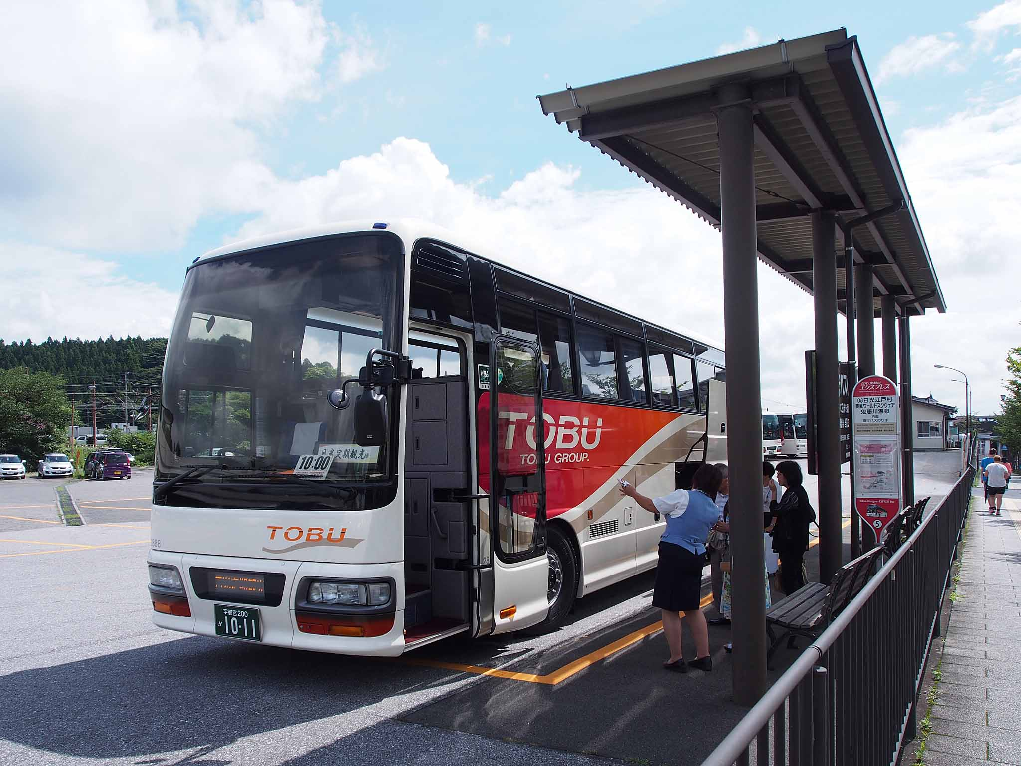 "Nikko Teiki Kanko bus" sightseeing tour bus in Nikko City, operated by Tobu Bus Nikko Model: Isuzu Gala SHD KL-LV774R2 (maybe) License plate: TGU200KA1011 Place: Tobu Nikko Station